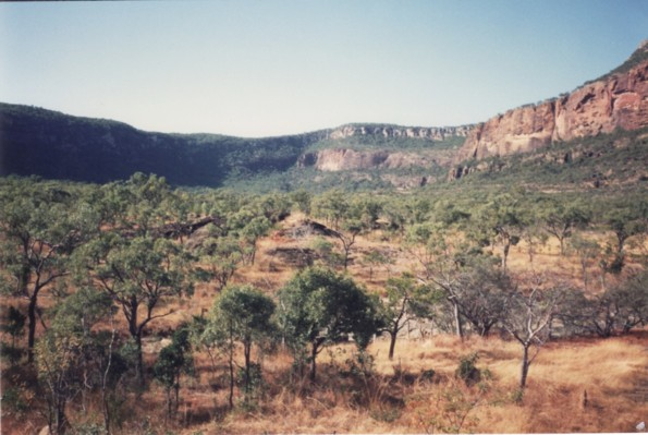 Photo taken from below Ngarrabullgan in 1991